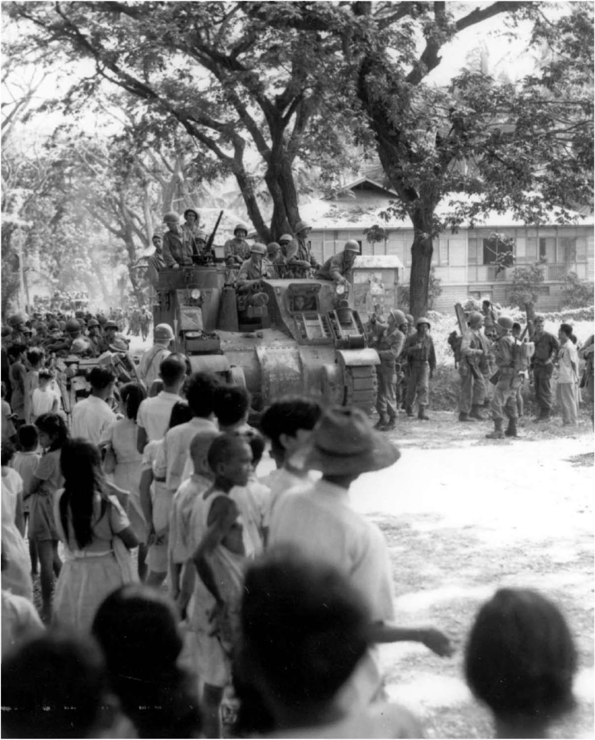 Filipino residents of Cebu City welcome American infantry and crew of supporting tanks.